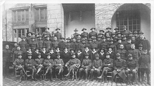 View of the Yale Mobile Hospital Unit No. 39, Christmas 1917, stationed at the Limoges China Factory, Limoges, France. Image courtesy of the Yale University Manuscripts & Archives Digital Images Database, Yale University, New Haven, Connecticut. Retouched by MarmadukePercy.